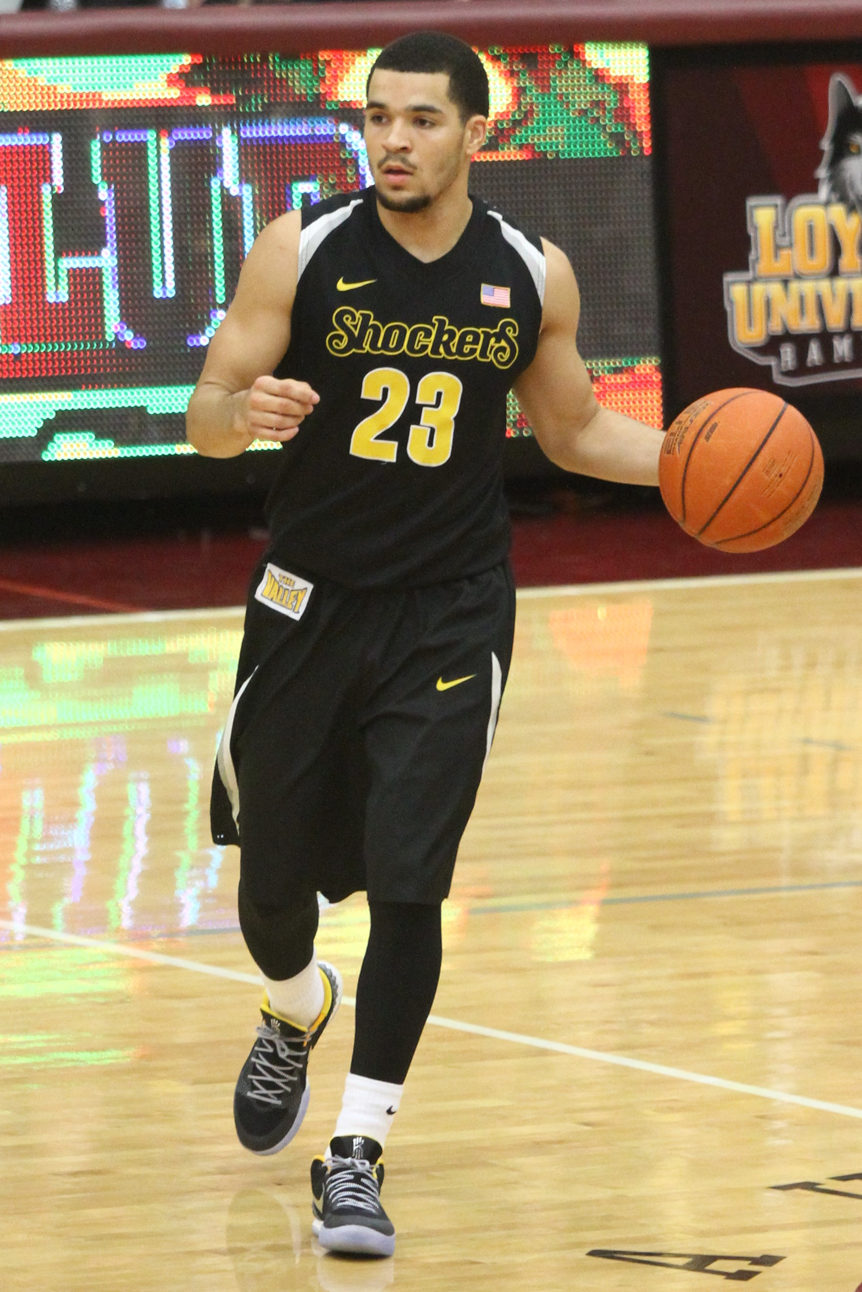 Fred VanVleet for the w:2014–15 Wichita State Shockers men's basketball team at the Joseph J. Gentile Arena